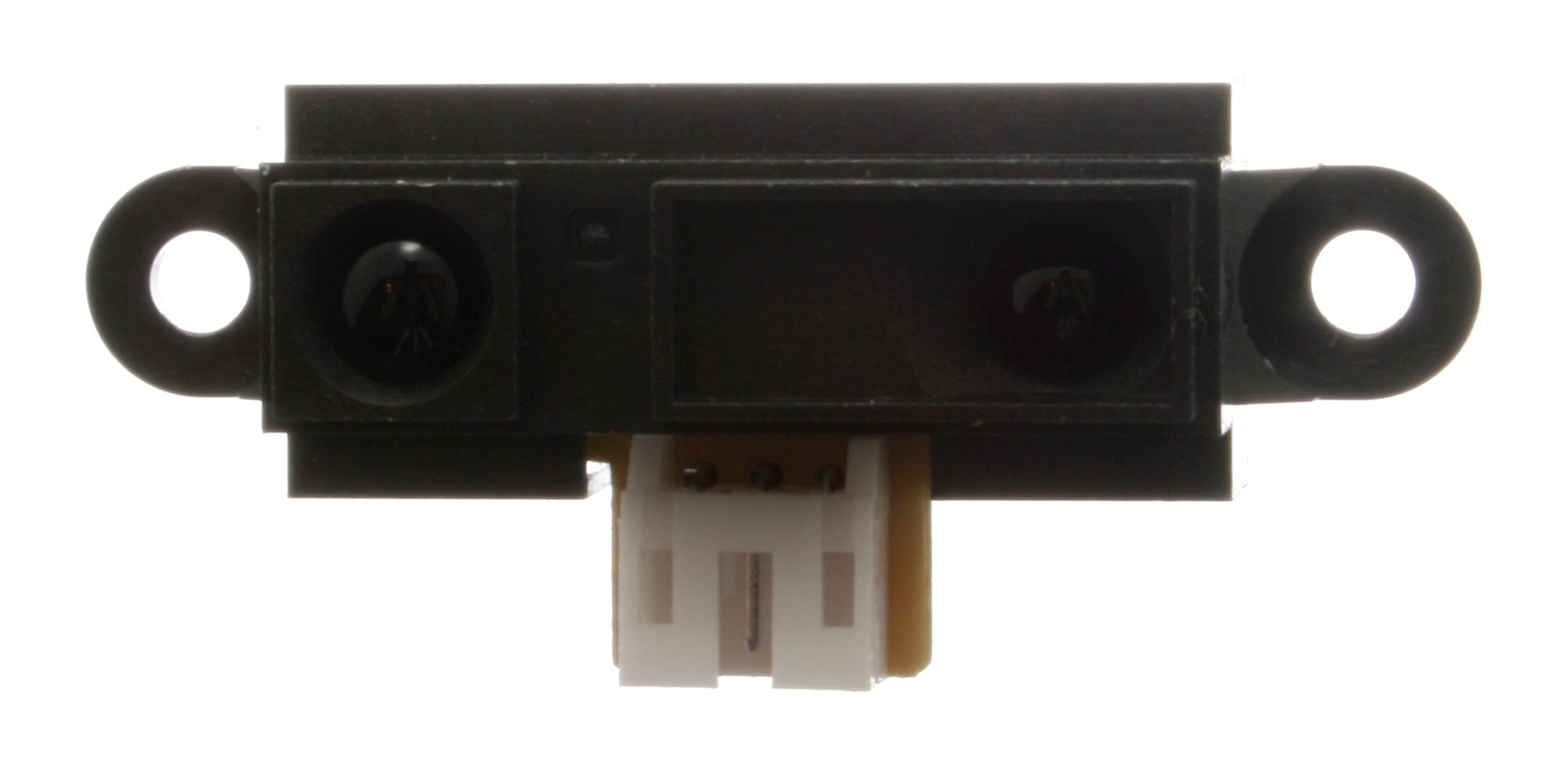 Sharp GP2Y0A21YK infrared proximity sensor. The sensor has an analog output that varies from 3.1V at 10cm to 0.4V at 80cm.